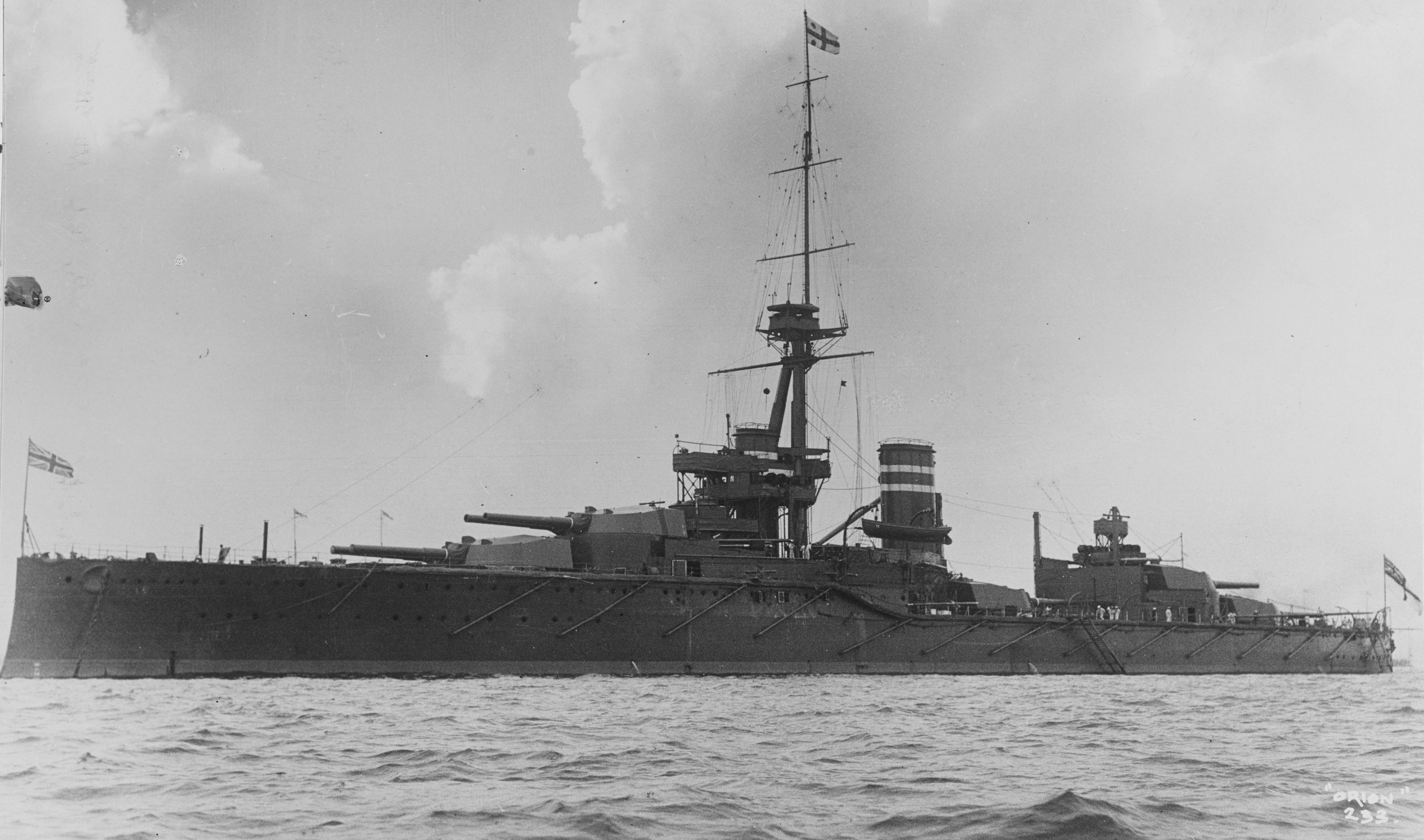 HMS Orion, circa 1913